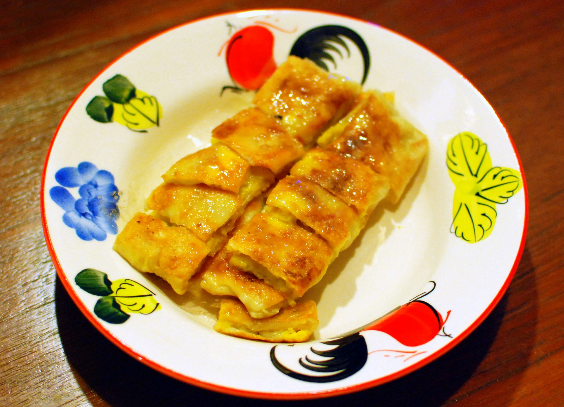 Roti kluai khai is Thai for a roti with banana and egg. Banana slices and a beaten egg are fried inside a roti, then cut and served with condensed sweetened milk and sugar. It is traditionally made by Thai Muslims. This roti was bought as a takeaway from a street stall on the corner of Arak road and Intra Warorot road in Chiang Mai.